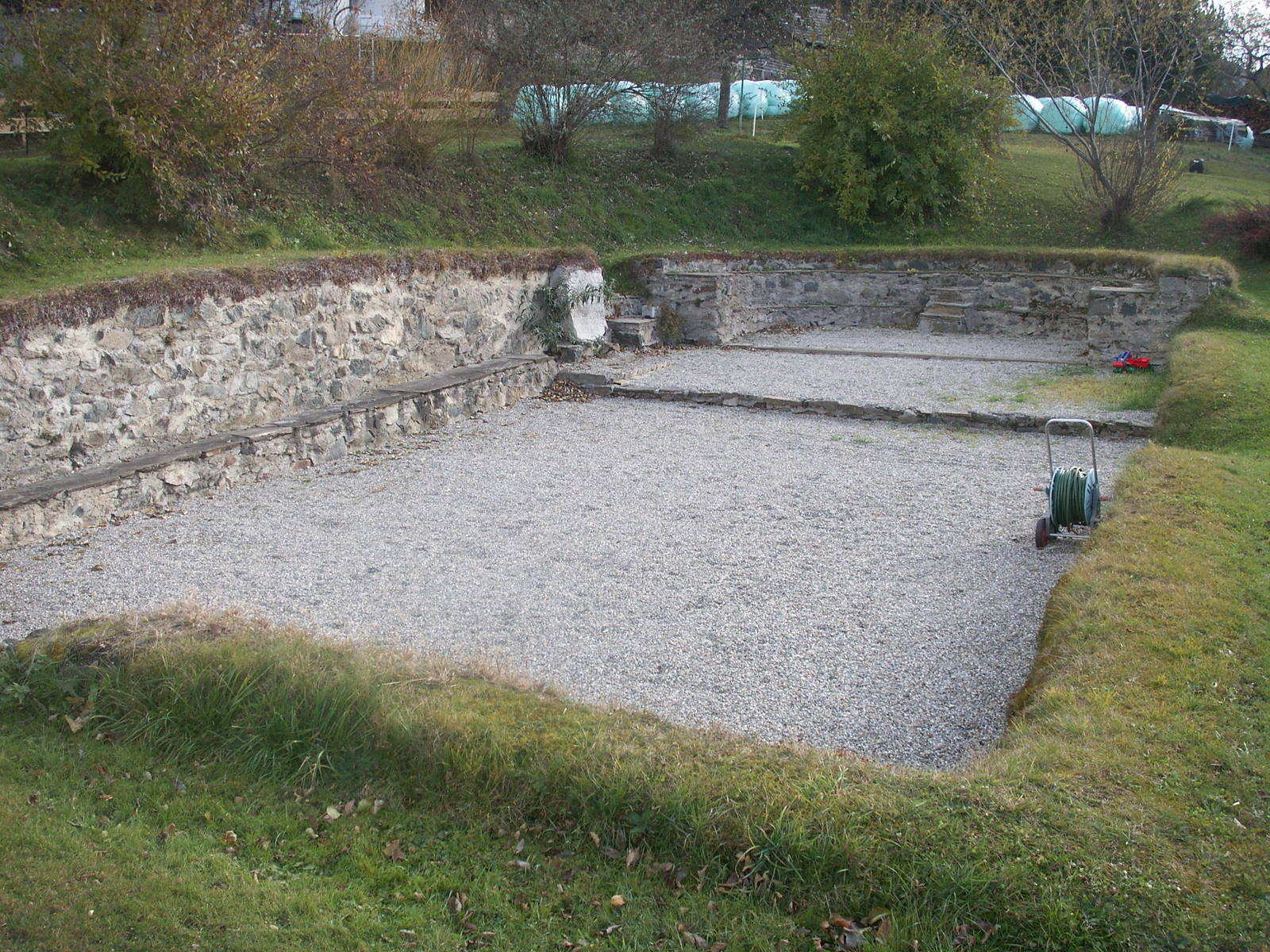 Ruin of an early christian church in Laubendorf near Lake Millstatt (Millstätter See), district Spittal an der Drau in Carinthia / Austria / EU. The church was open to the public for 55 years. The landowner has a listed property is now filled in with earth. Neither the municipality Millstatt am See, even the tourist office or the region of Carinthia is ready, the land owner to pay compensation.